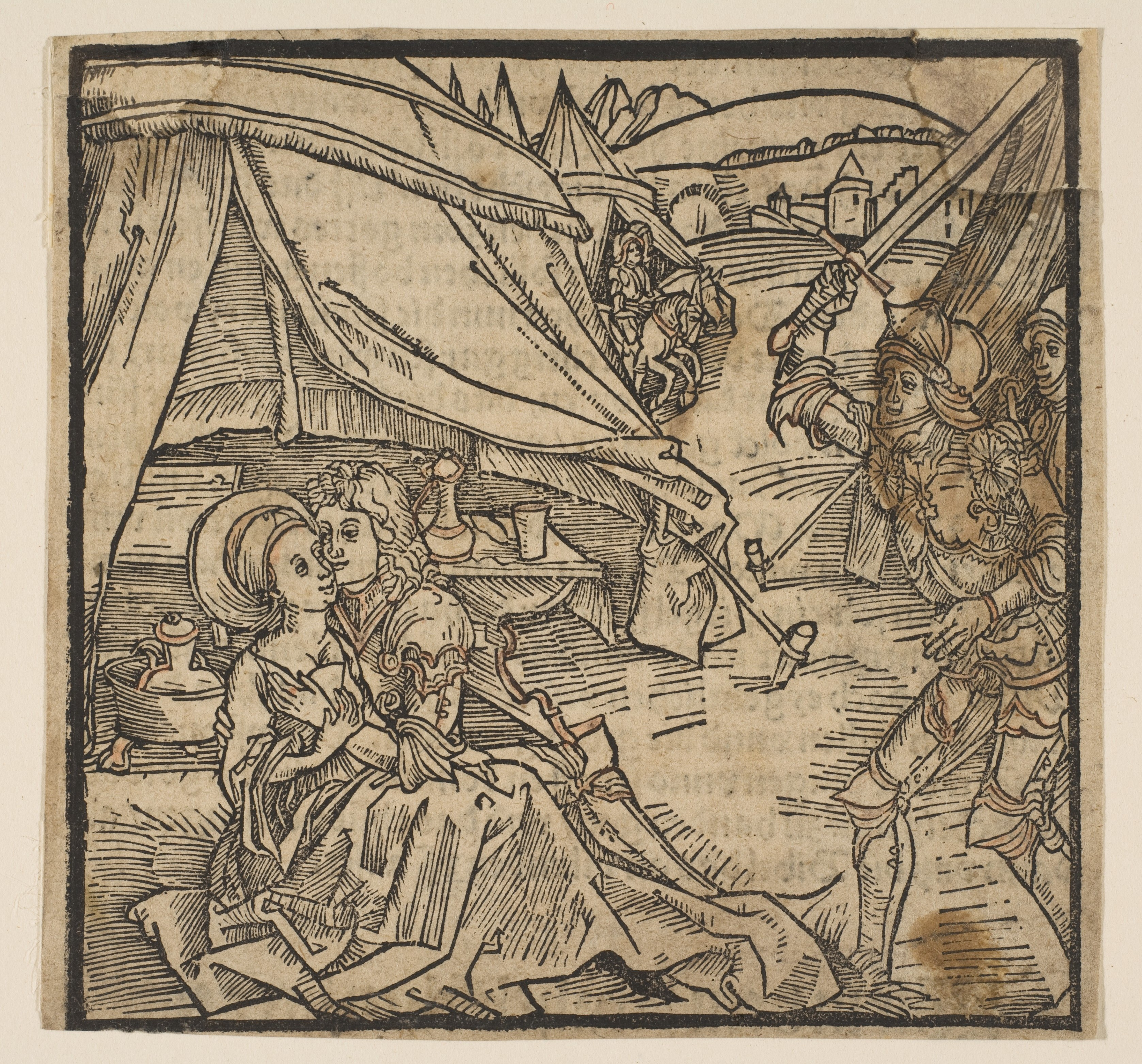 Print; Prints